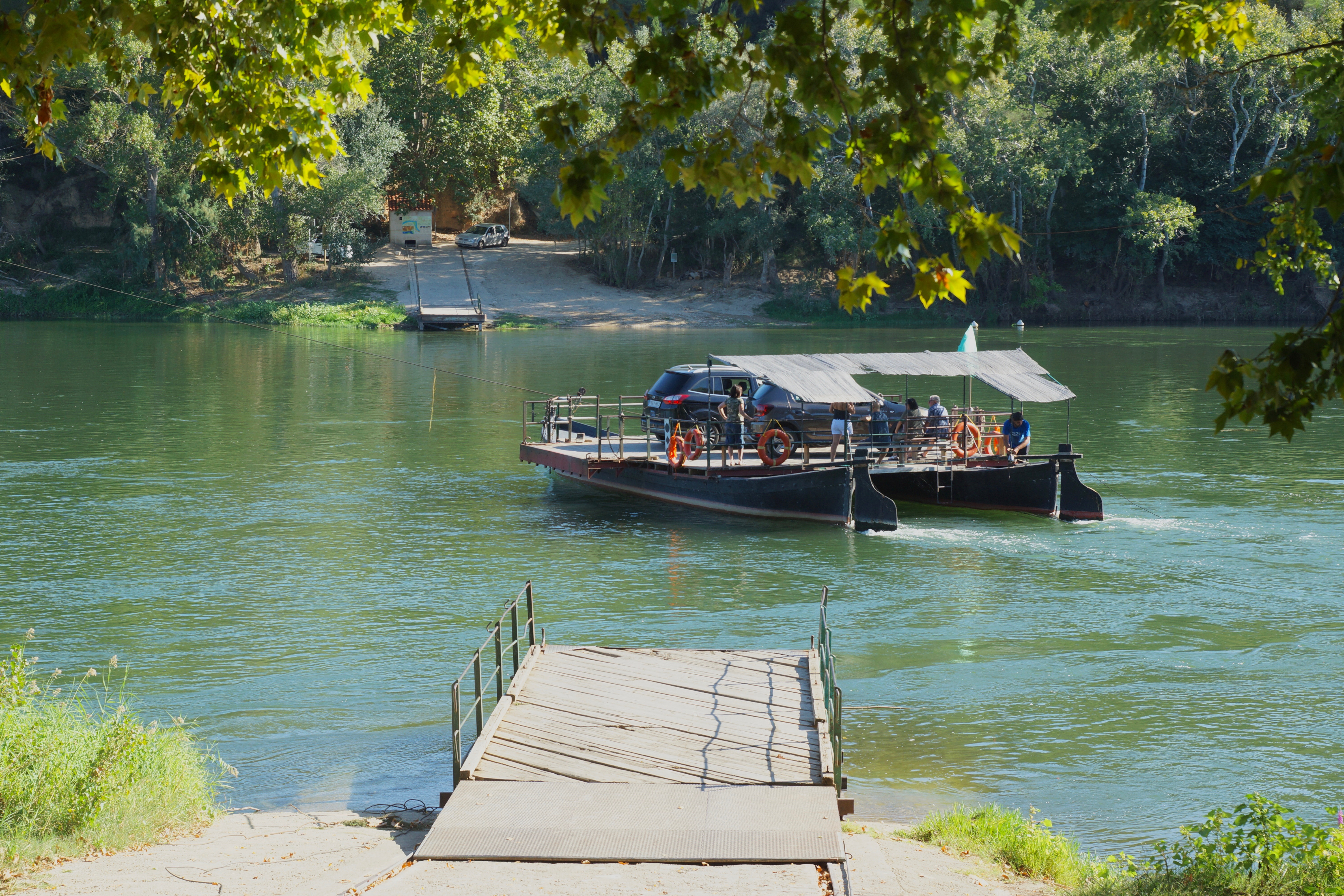 Miravet, Catalonia: The Miravet Ferry on the river Ebre with two cars and some passengers